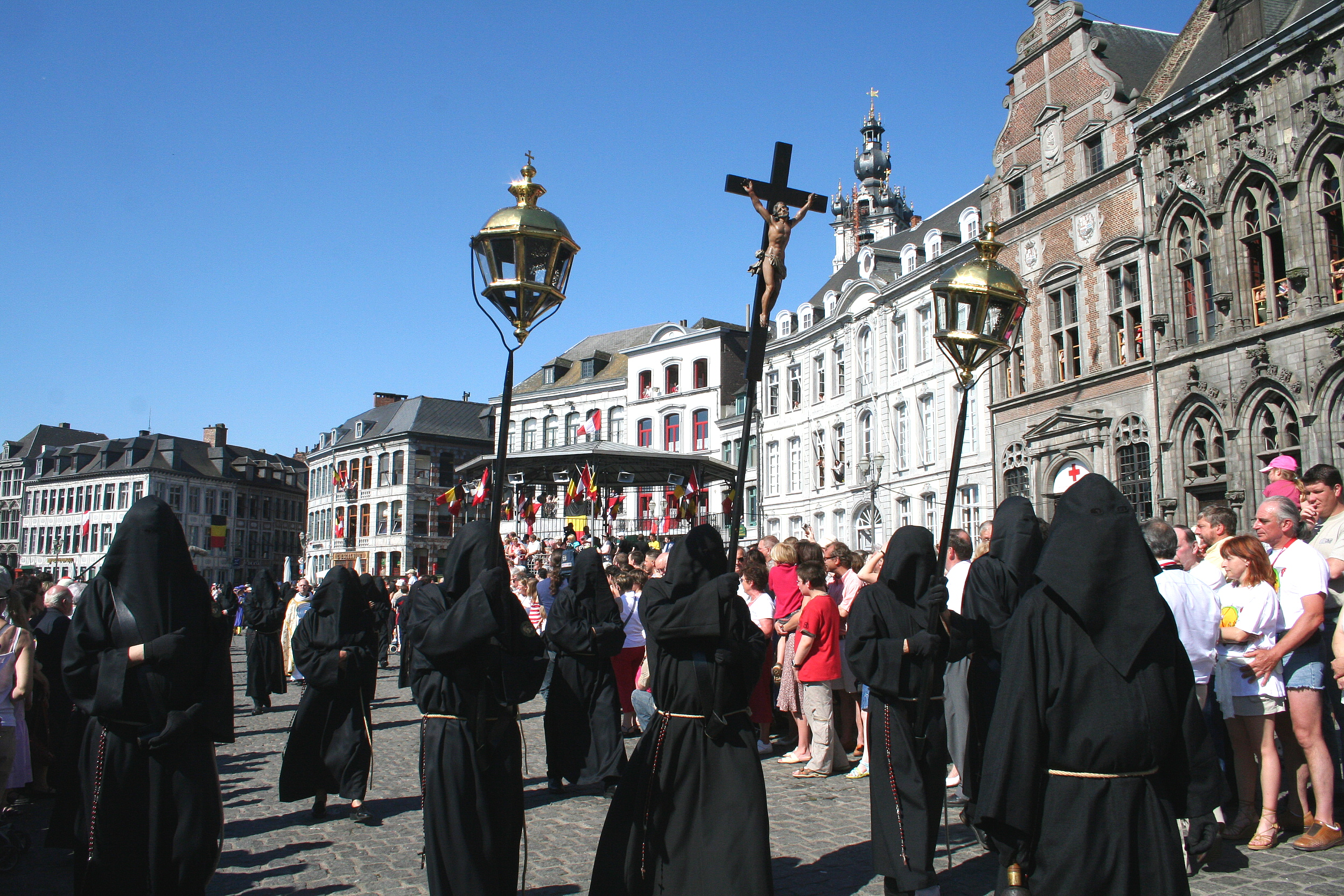 Mons (Belgium), the Beubeux fellow members during the procession of the Golden Car.